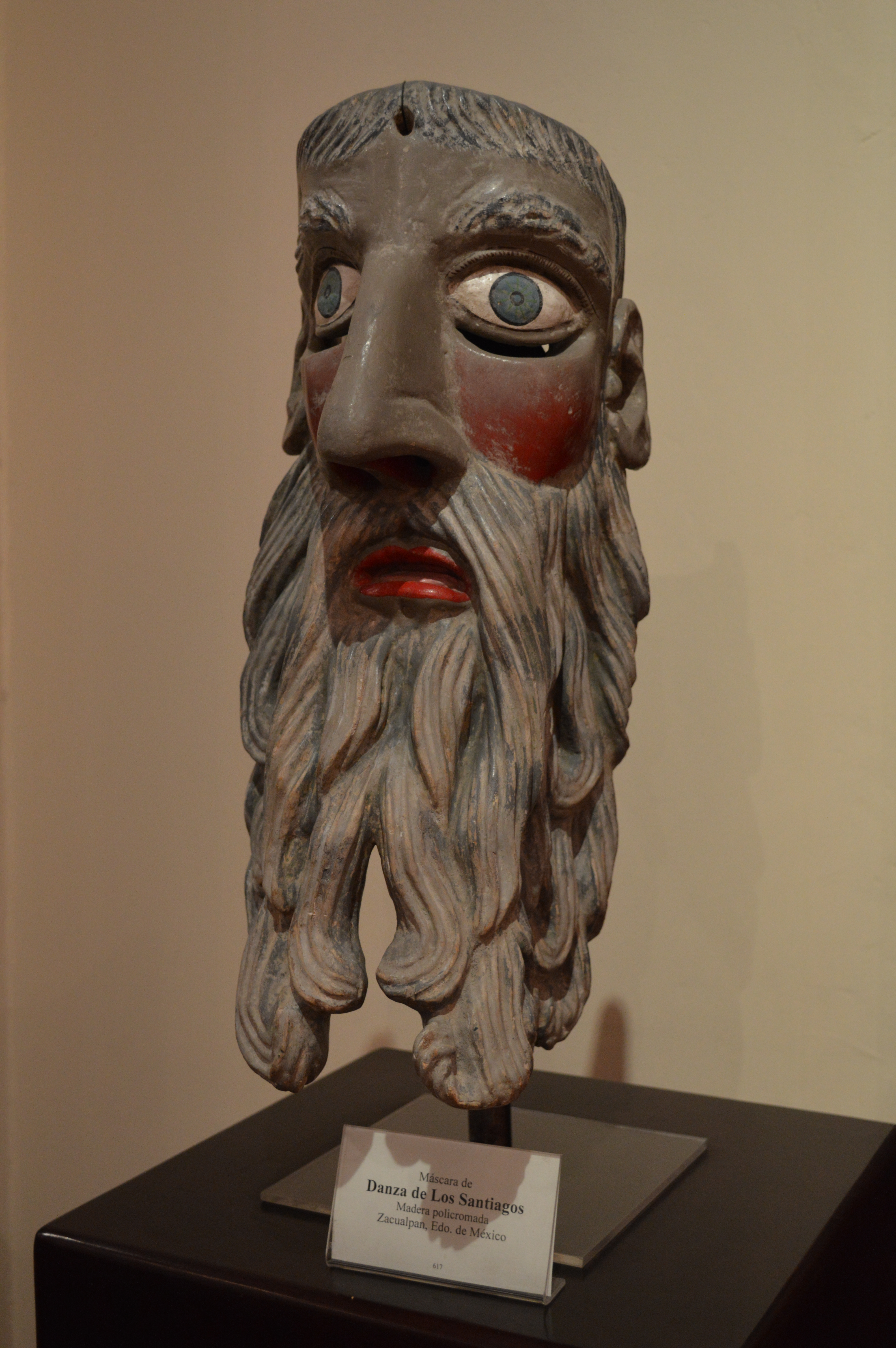 Mask for the Danza de los Santiagos from Zacualpan, State of Mexico at the Museo Nacional de la Máscara in San Luis Potosi, Mexico